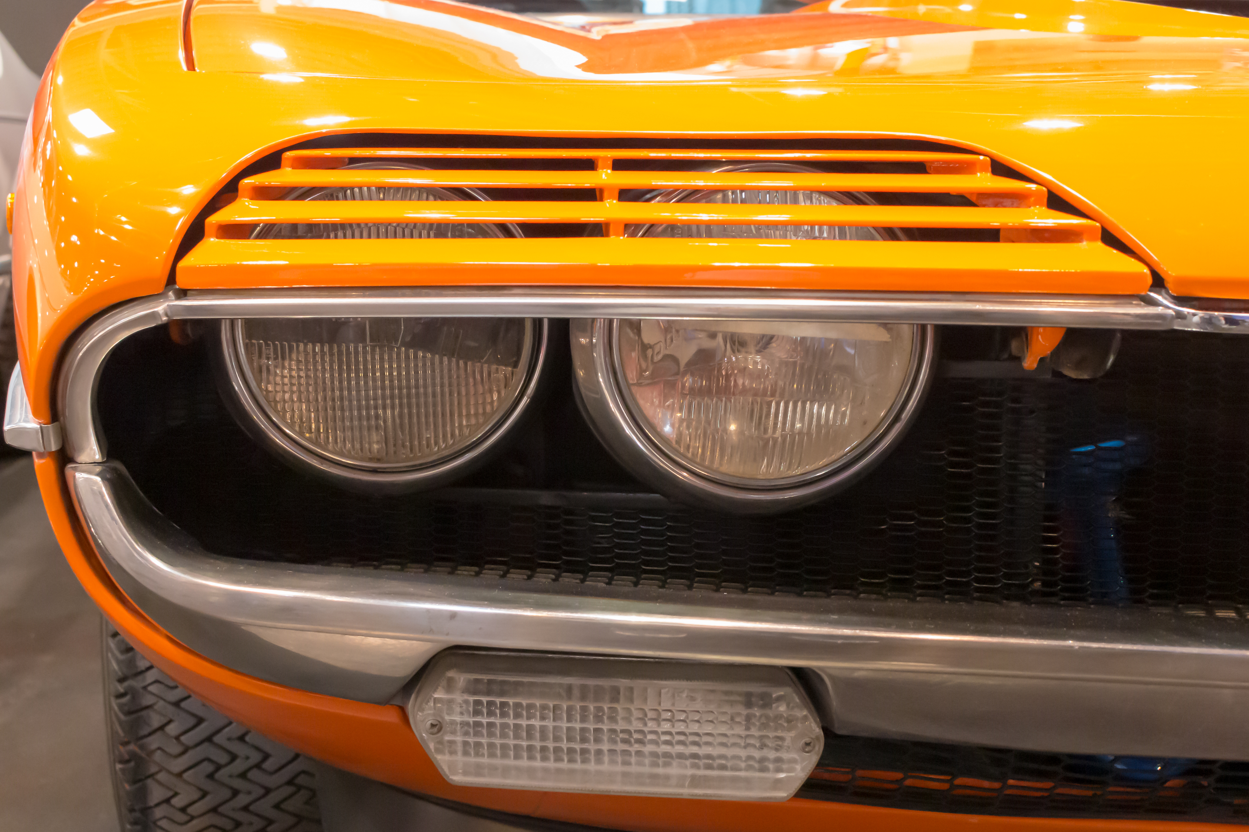 Alfa Romeo Montreal headlamps at Techno-Classica 2018, Essen